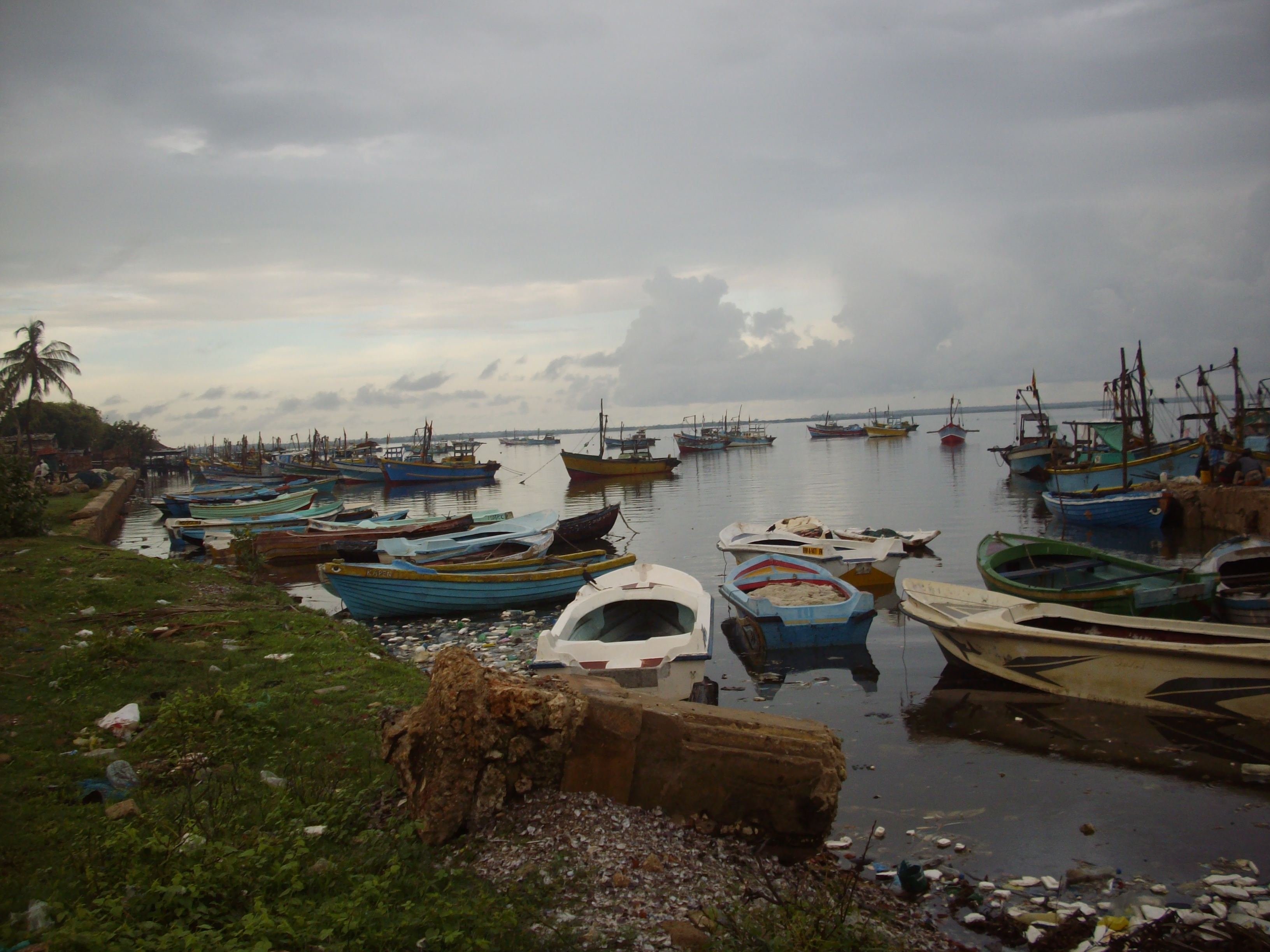 The natural fishing harbour of Jaffna.